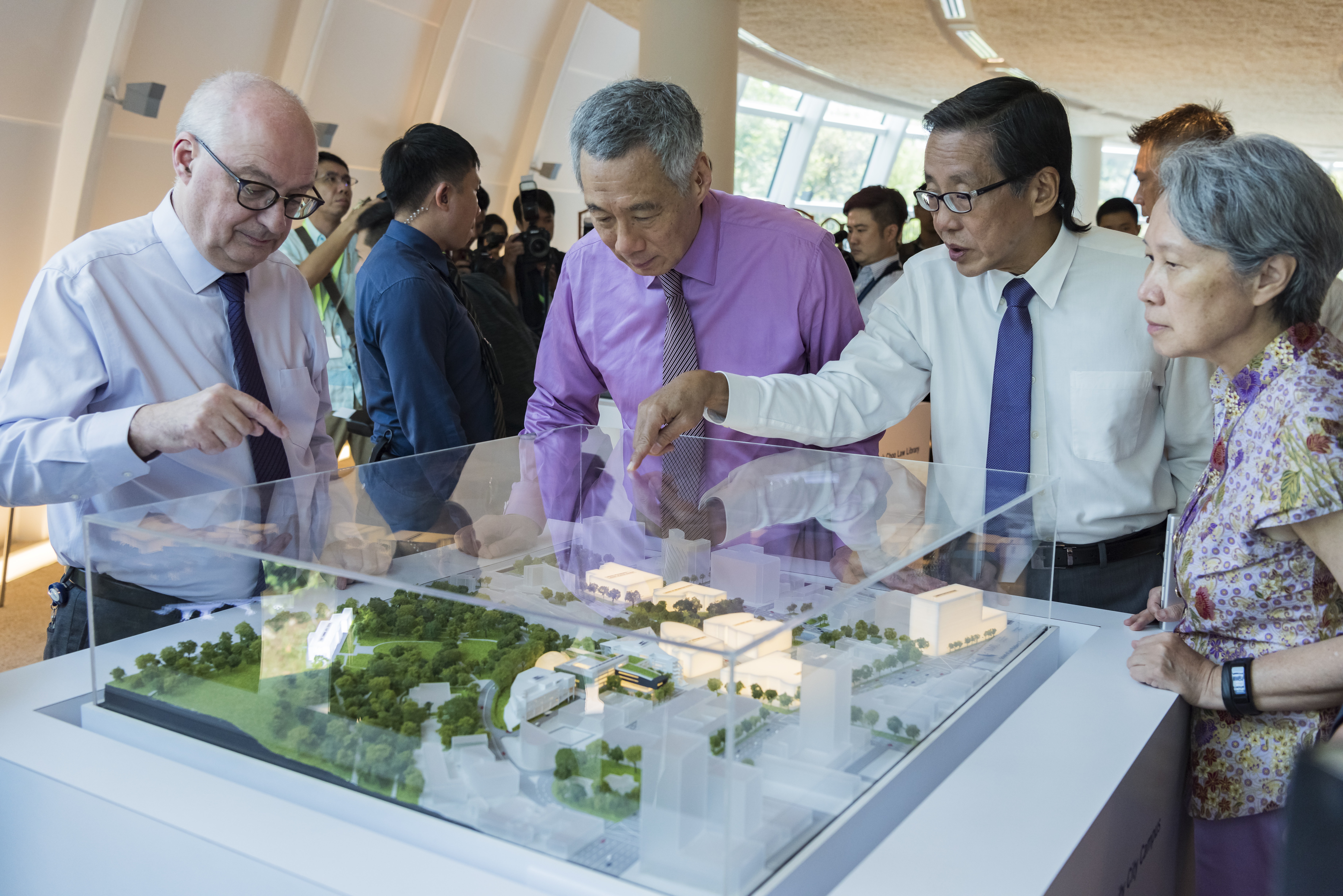 PM Lee Hsien Loong with Ho Ching, Ho Kwon Ping, and the SMU President at the opening of the SMU School of Law